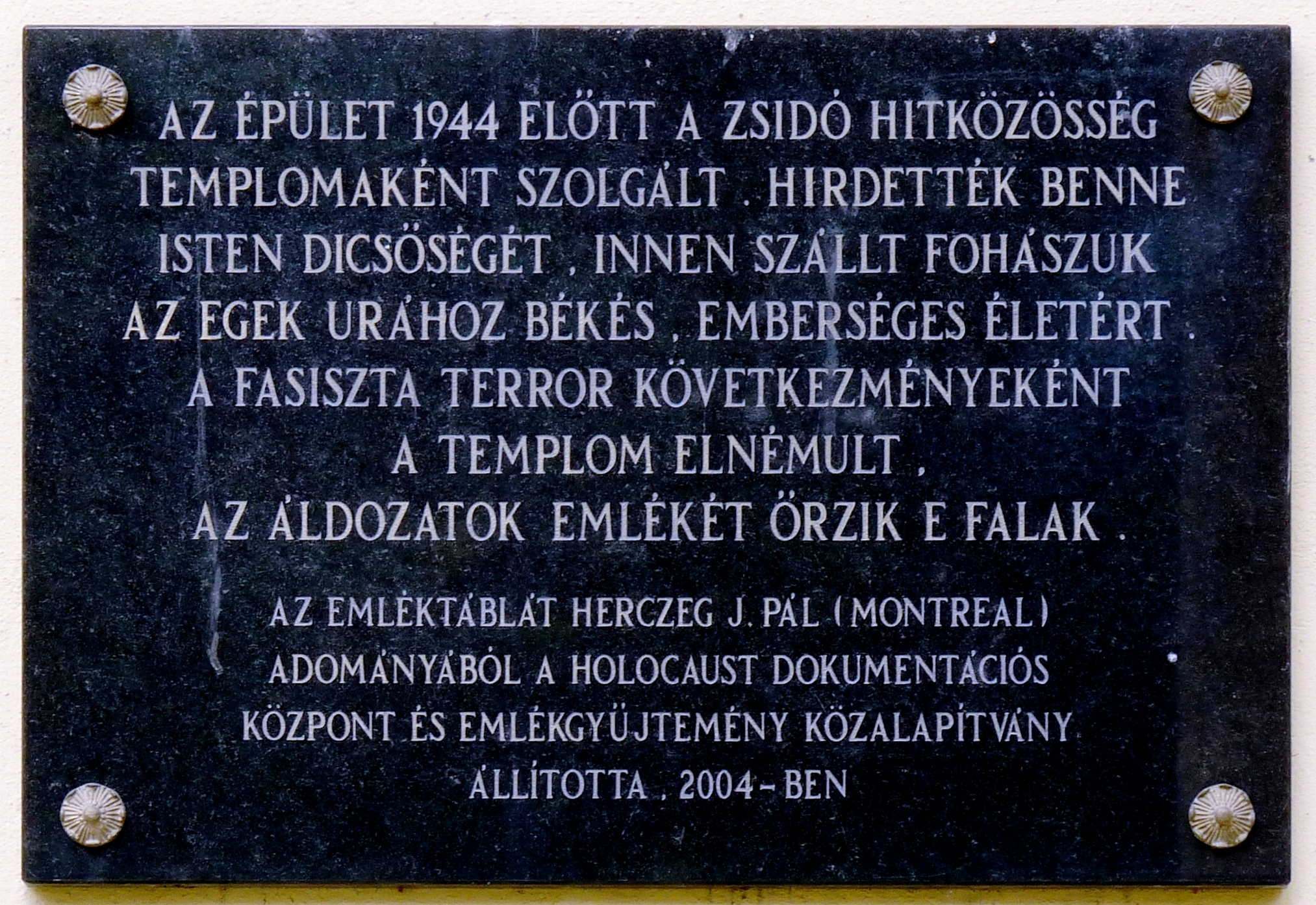 Commemorative plaque on the Obuda's synagogue.